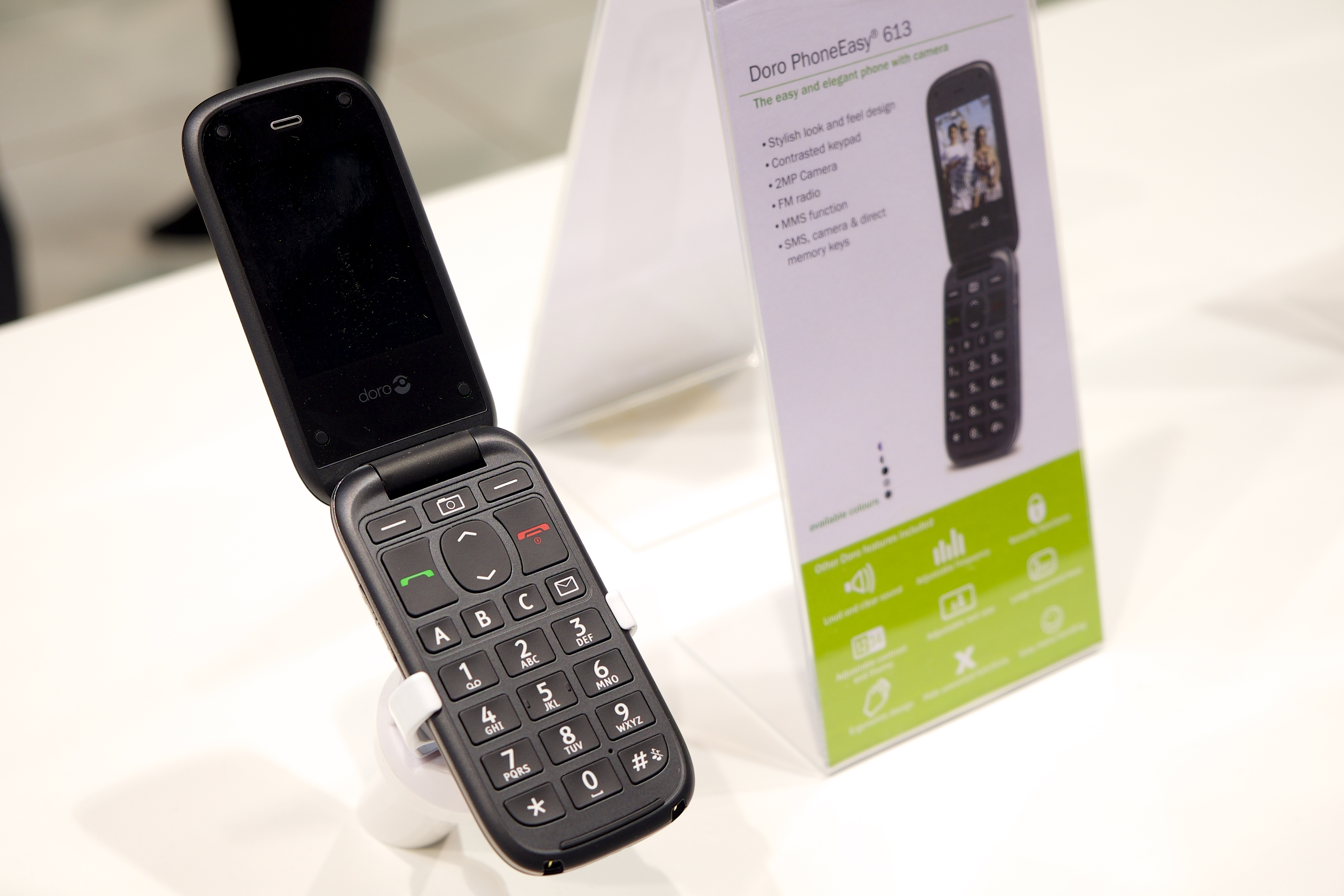 Doro PhoneEasy 613 for seniors at Mobile World Congress 2015 Barcelona